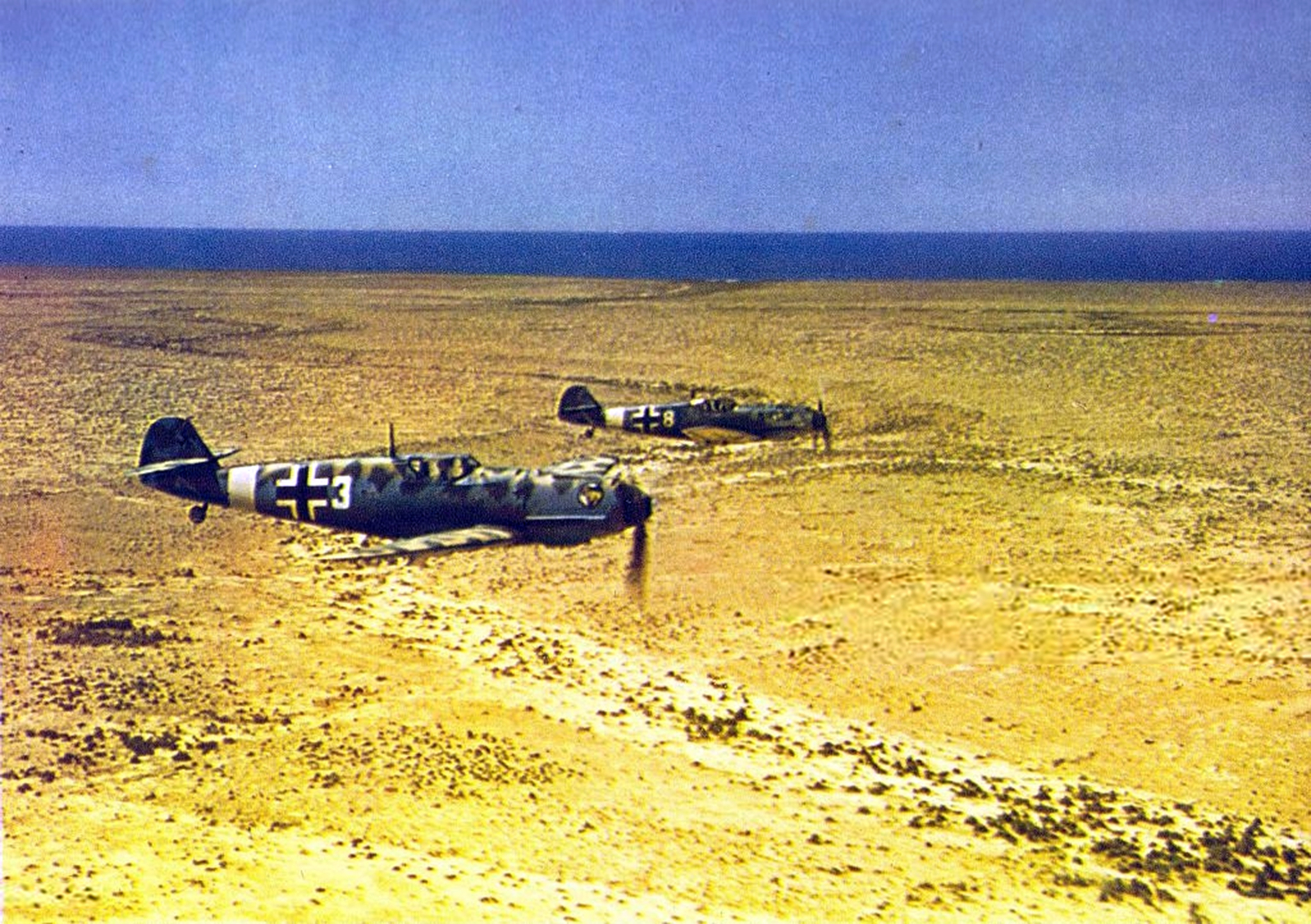 German Messerschmitt Me 109E fighters from I/Jagdgeschwader 27 (1st Group, 27th Fighter Wing) in flight over North Africa, circa 1941.